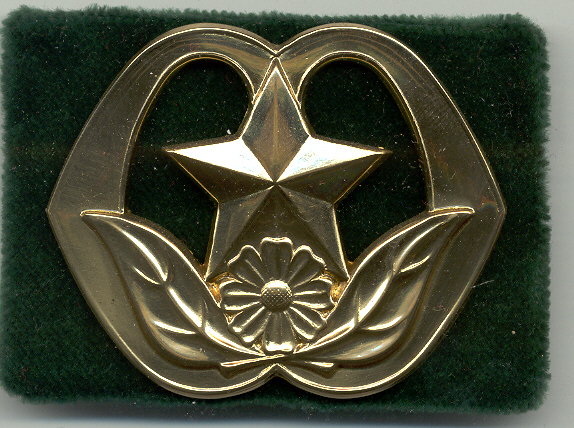 Baret Badge Humanistisch Raadsman